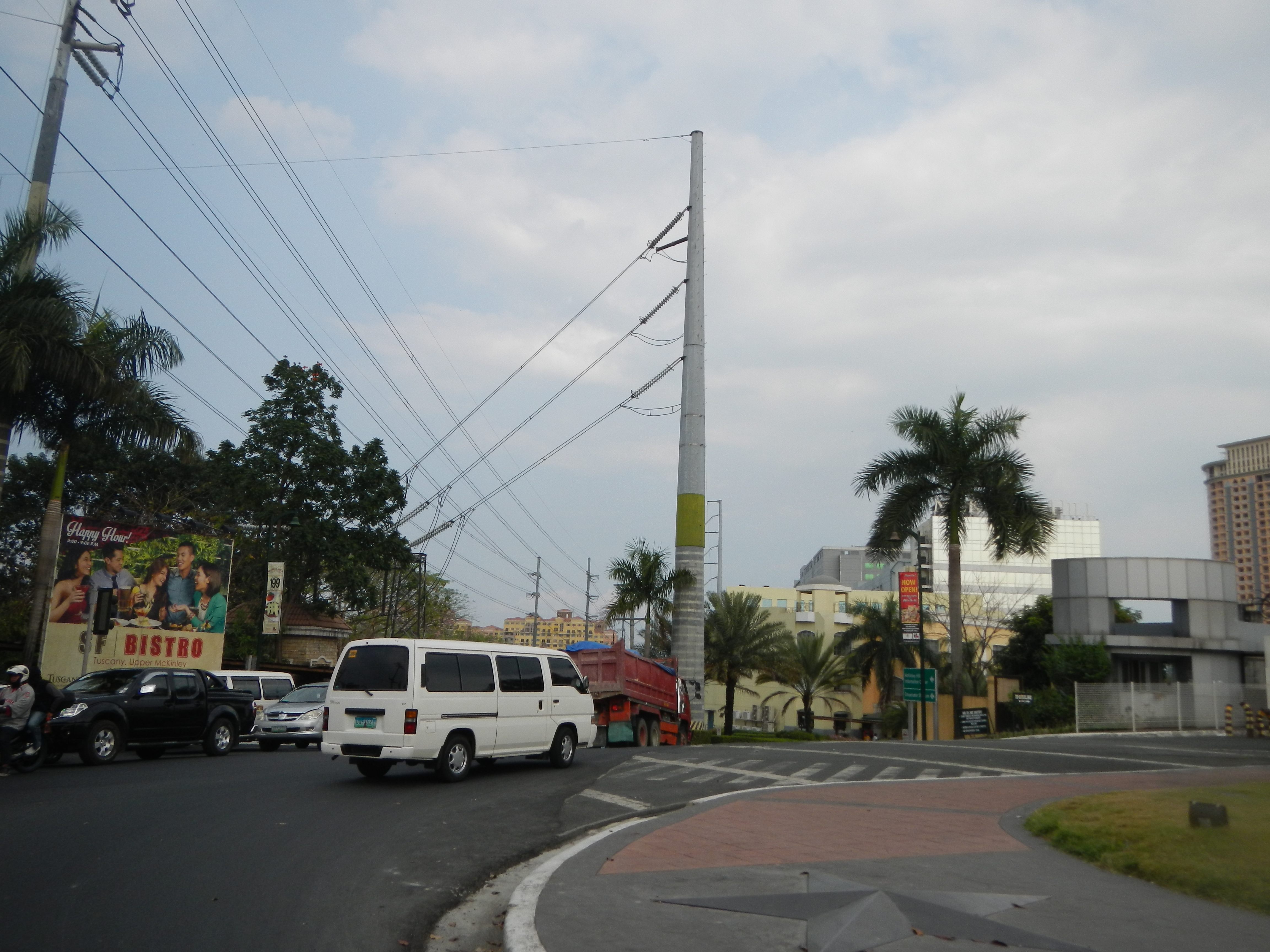 Fort Bonifacio, Taguig City, Metro Manila, Philippines.